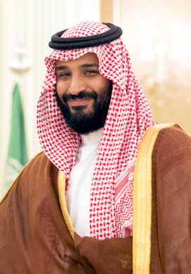 Deputy Crown Prince of Saudi Arabia Mohammad bin Salman Al Saud at the Royal Court Palace in Riyadh.